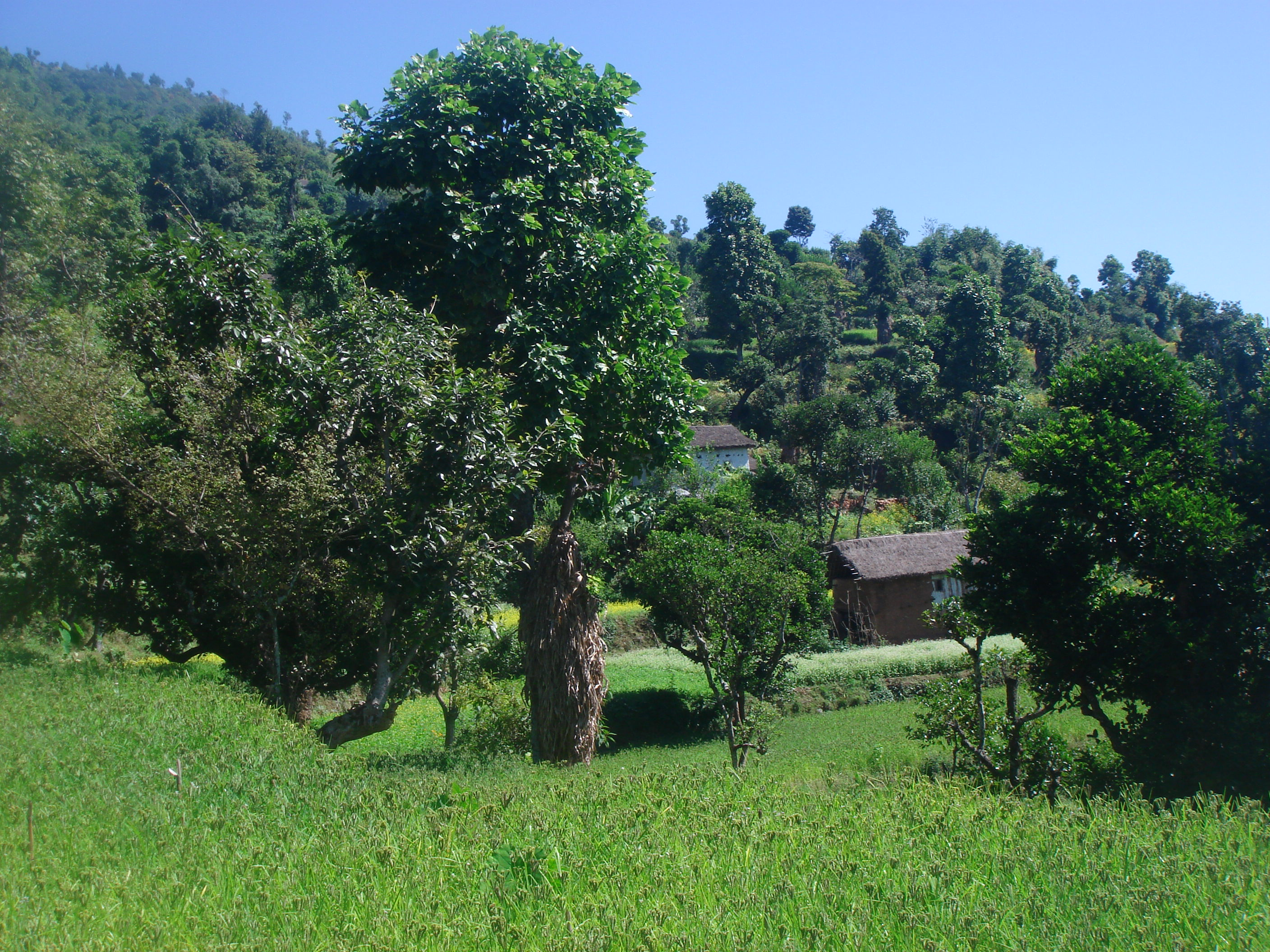 A view of Okaldhunga